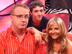 Greg Scott (left), along side c/o host Debbie King.